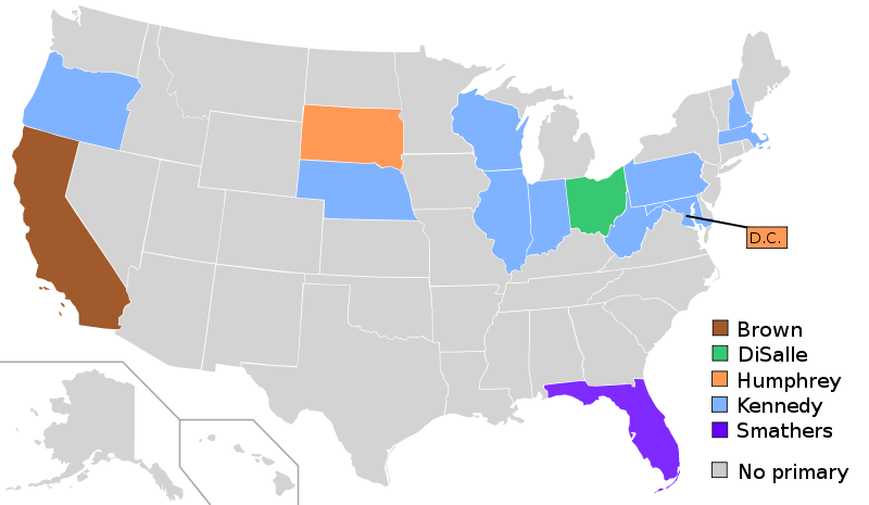 A map showing the states won by each contender in the 1960 Democratic presidential primaries.